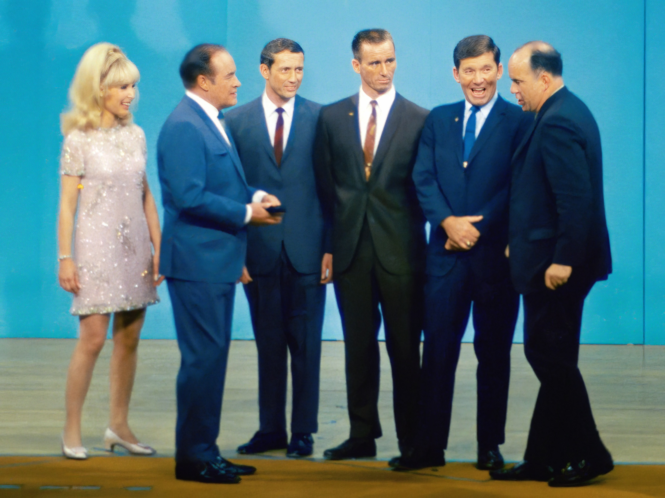 From left: Actress Barbara Eden, Bob Hope, Apollo 7 astronauts Donn F. Eisele, R. Walter Cunningham, Walter M. Schirra and Paul Haney, NASA's "Voice of Mission Control". This undated photograph shows entertainer Bob Hope, who died July 27, 2003 at the age of 100, with the crew of Apollo 7: Wally Schirra, Walter Cunningham and Donn Eisele. Actress Barbara Eden and Paul Haney, NASA's "Voice of Mission Control" joined Hope -- a pioneer in the television industry -- at the Johnson Space Center during an evening program honoring the crew, which broadcast the first live television from space. Hope and NASA crossed paths many times, as the comedian and actor often featured astronauts on his television specials and tours to entertain the U.S. military. At a 1991 dinner for the original Mercury astronauts, the Washington Post quoted Hope as saying, "It's tough to play golf with astronauts. They count backwards." From an episode of The Bob Hope Show, broadcast November 6, 1968. [1]